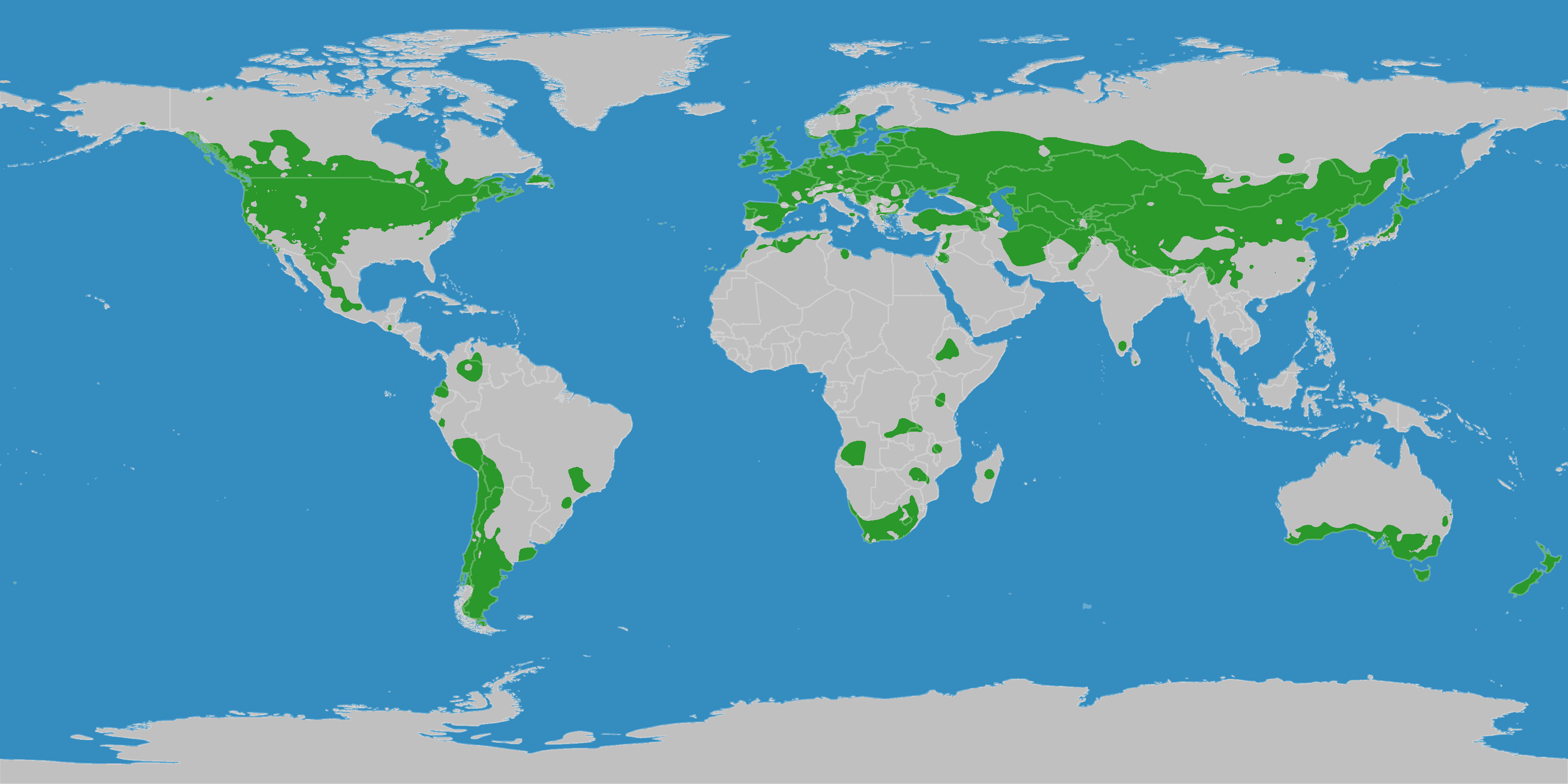 This map shows the Earth zones with a warm temperate climate.